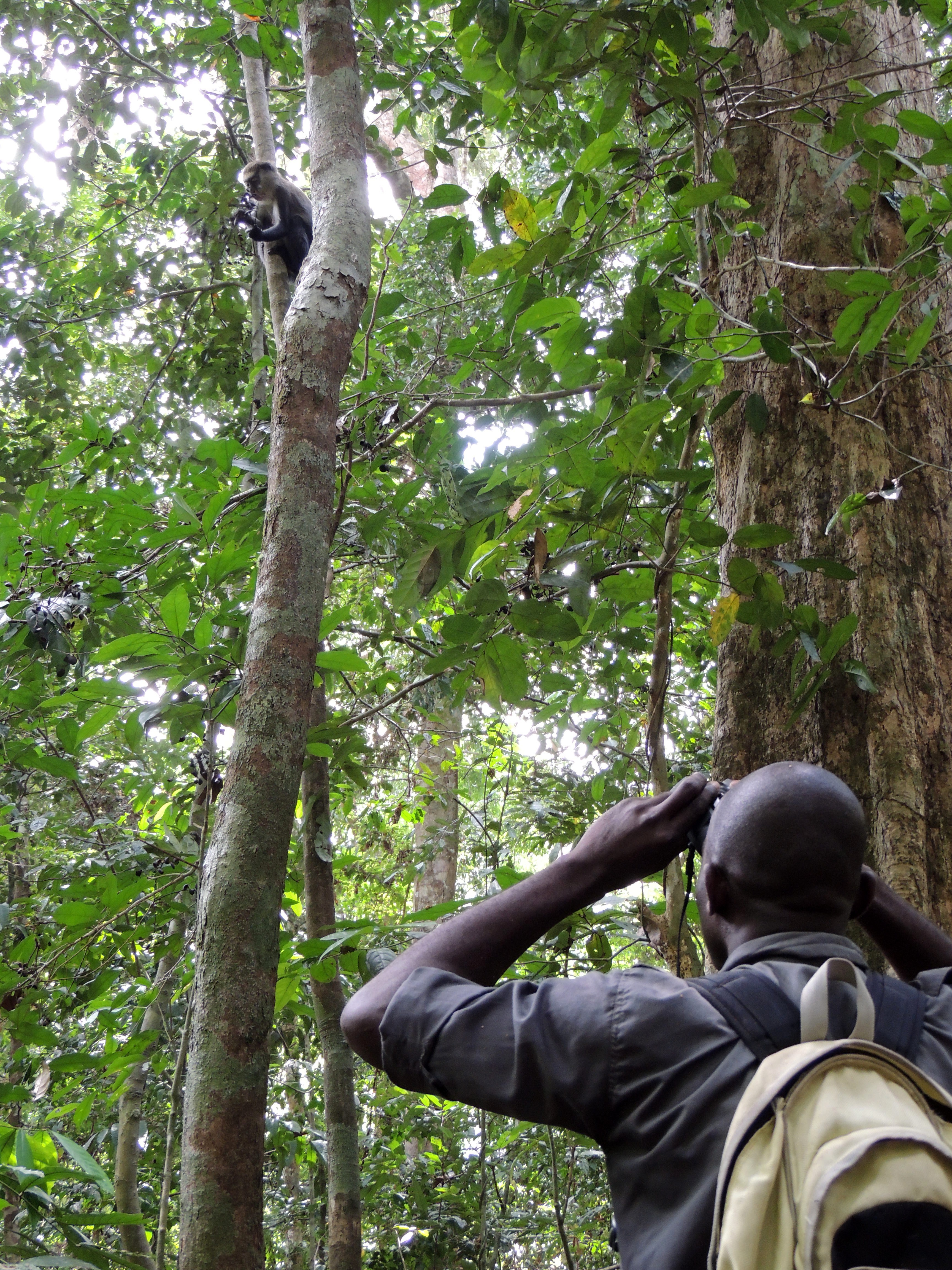 Research assistant in tropical forest, working on Primates. This is an image of "African people at work" from Ivory Coast